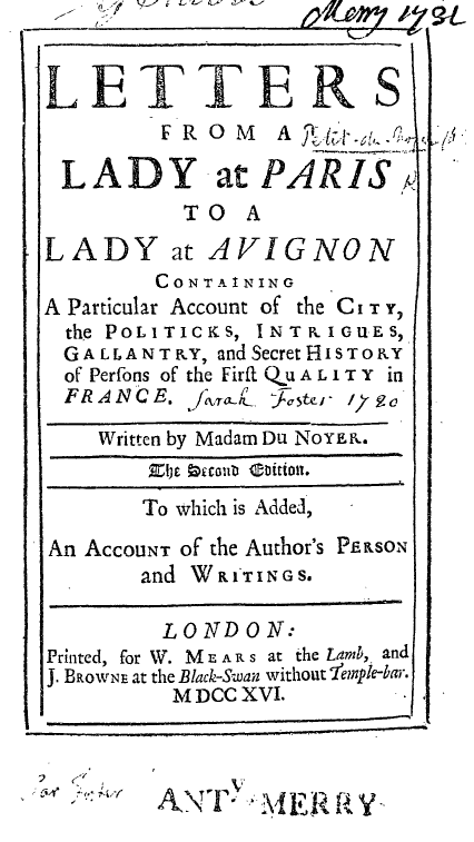 Title page of the English edition of Madame DuNoyer's Letters: Du Noyer, Madame (Anne Marguerite Petit). Letters from a lady at Paris to a lady at Avignon containing a particular account of the city, the politicks, intrigues, gallantry, and secret history of persons of the first quality in France. The second edition. … Vol. 1. London, printed for W. Mears at the Lamb, and J. Browne at the Black-Swan without Temple-bar, 1716.